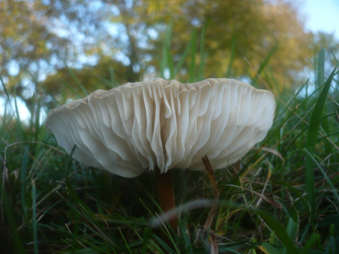 Xerula pudens (Pers.) Fr. Image location: Rollbrandt, Mattersburg, Bezirk Mattersburg, Burgenland, Austria sometimes known as “star flower” ;) Recognized by sight: with chestnut For more information about this, see the observation page at Mushroom Observer.